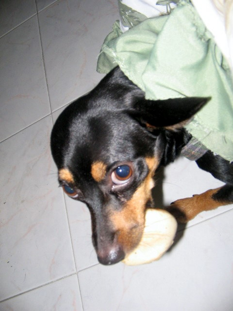 A Pinscher protecting his food